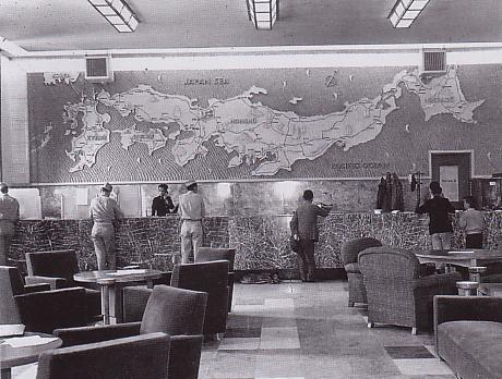 Information office for Allied Military Personnel Only in Tokyo Station